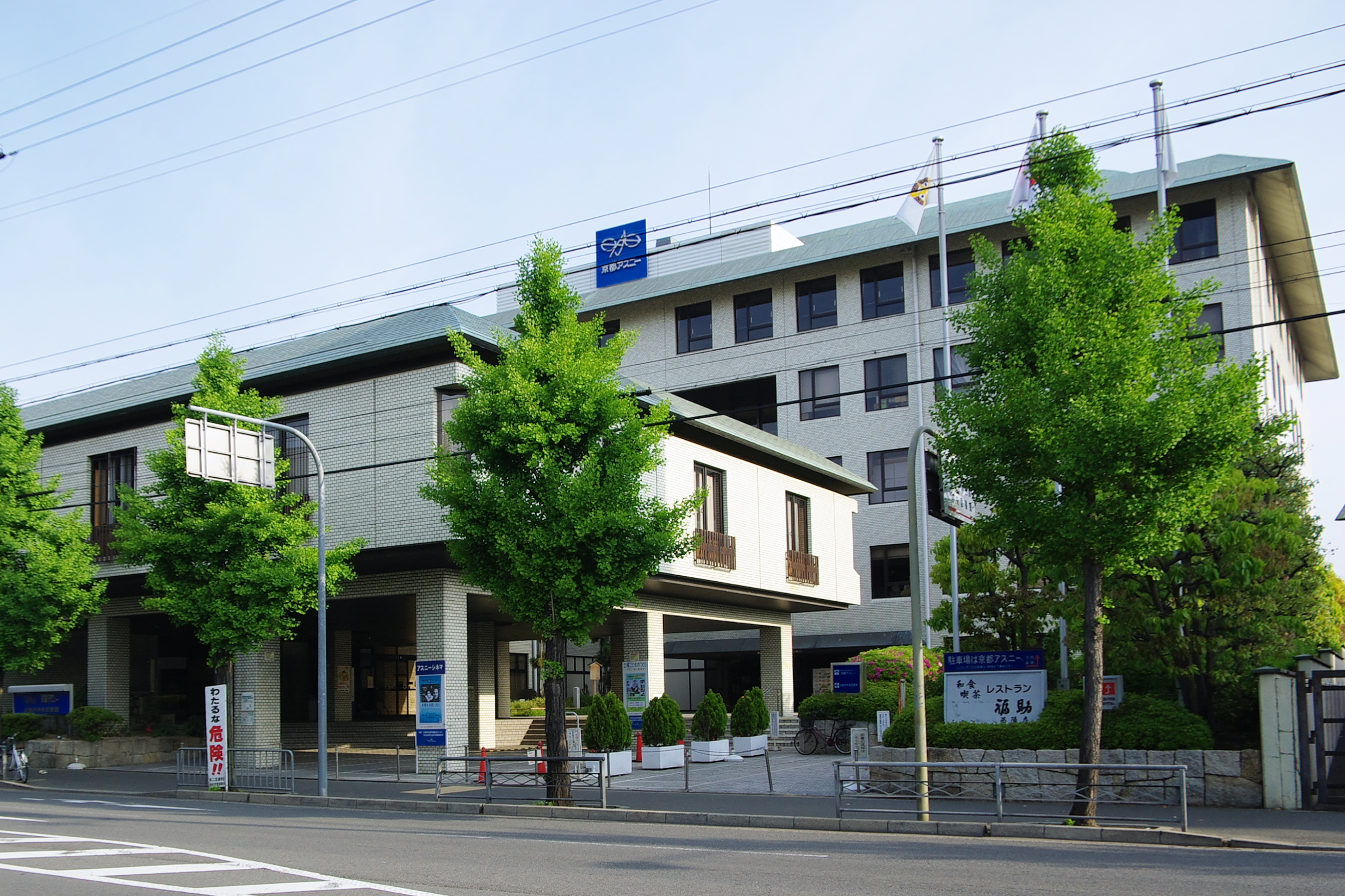 Photograph of Kyoto City Life-long Learning Center (Kyoto Asny, right) and Kyoto City Central Library (left) in Nakagyo-ku, Kyoto, Kyoto Prefecture, Japan.